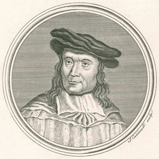 English organist and composer William Child (1606-1697) by James Caldwall (1739-1822). From an original portrait painted in 1663.